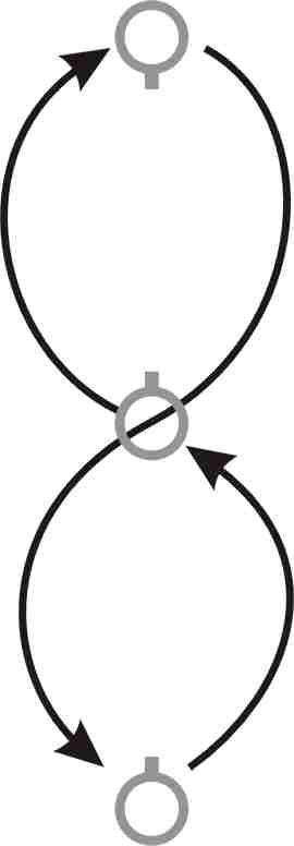 dance figure: reel of three